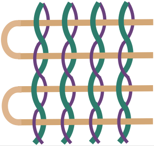 A construction method diagram for basic Leno Weave.